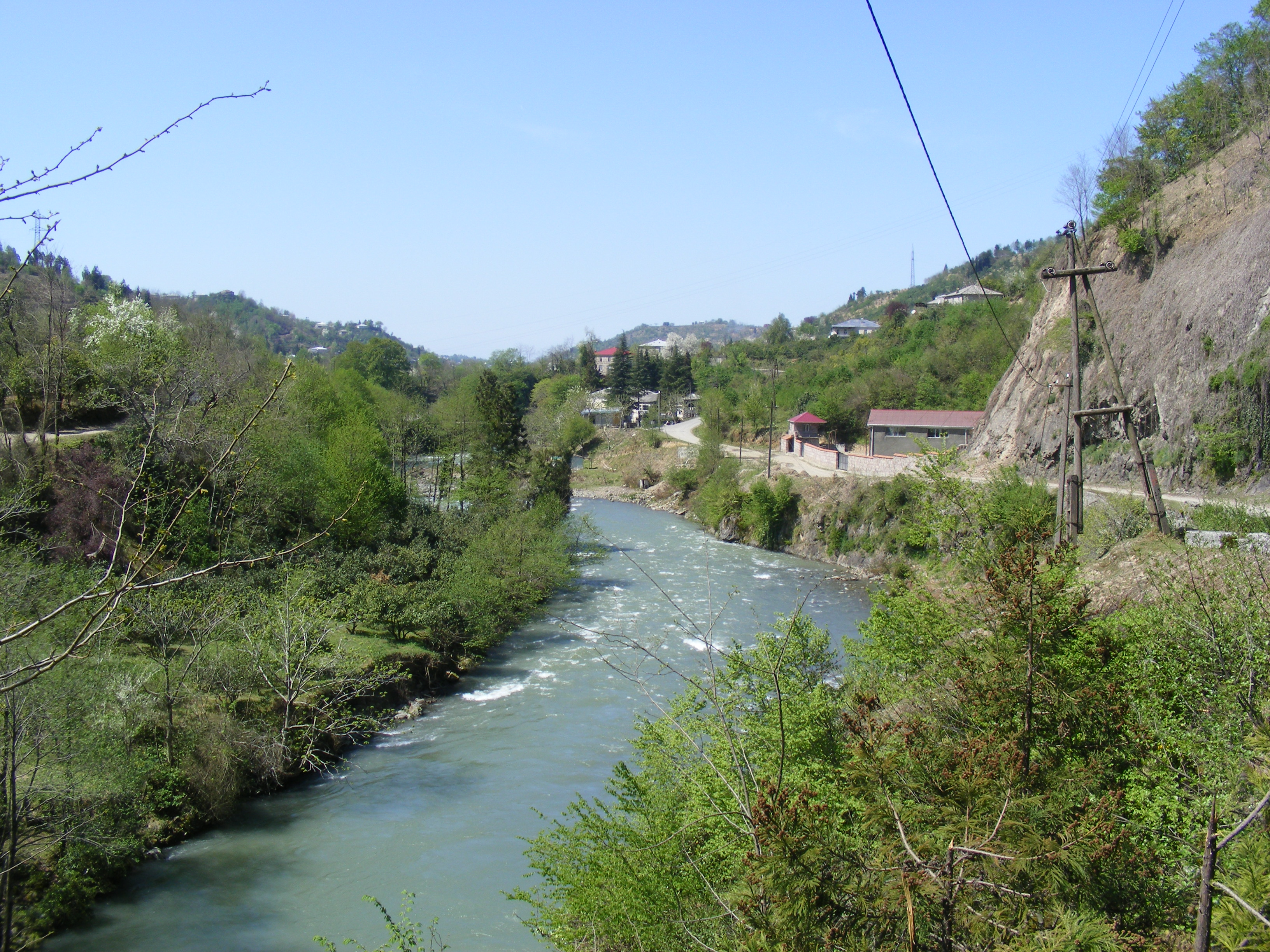 River Kintrishi at Village Kobuleti